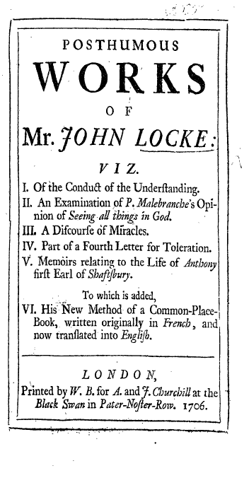 Locke, John. Posthumous Works of John Locke. Eighteenth Century Collections Online. Author has been dead for over 100 years. commons:Category:Title pages